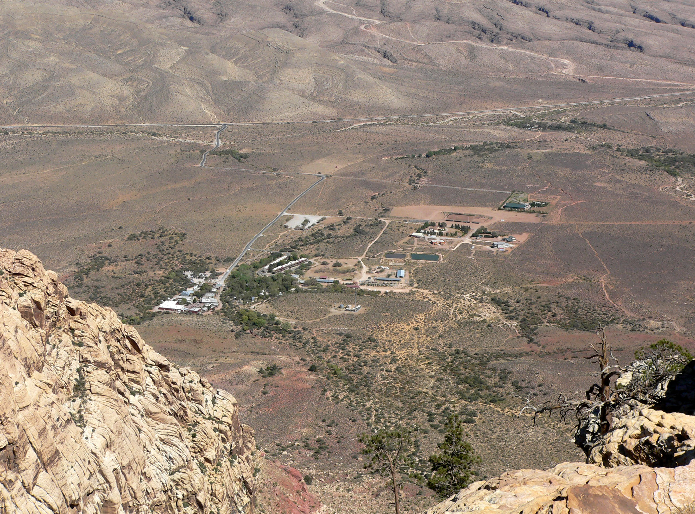 Bonnie Springs Ranch in Red Rock Canyon — seen from an escarpment above in the Spring Mountains of southern Nevada